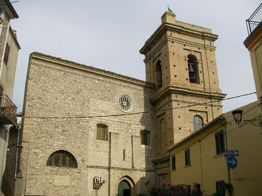 The façade of the church of Santa Croce to Atessa